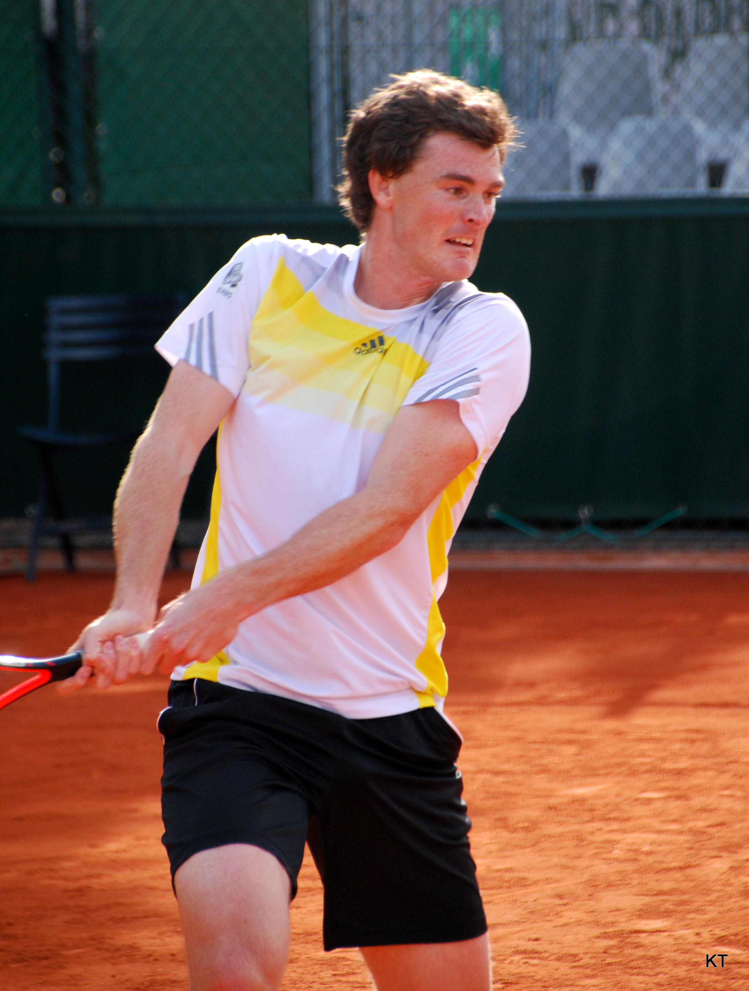 Murray hitting a backhand at the French Open